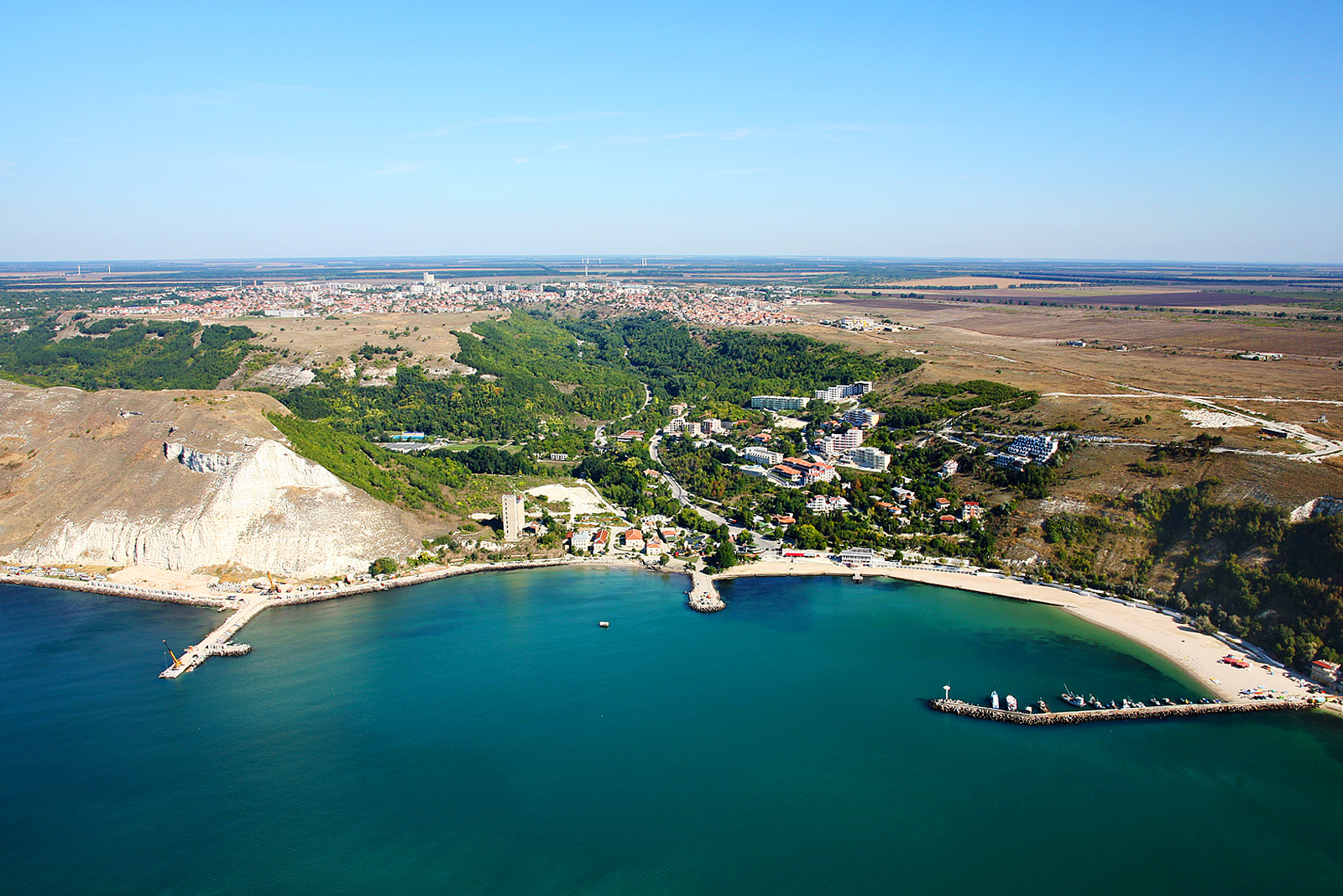 Aerial photo from the Black Sea of Kavarna, Bulgaria